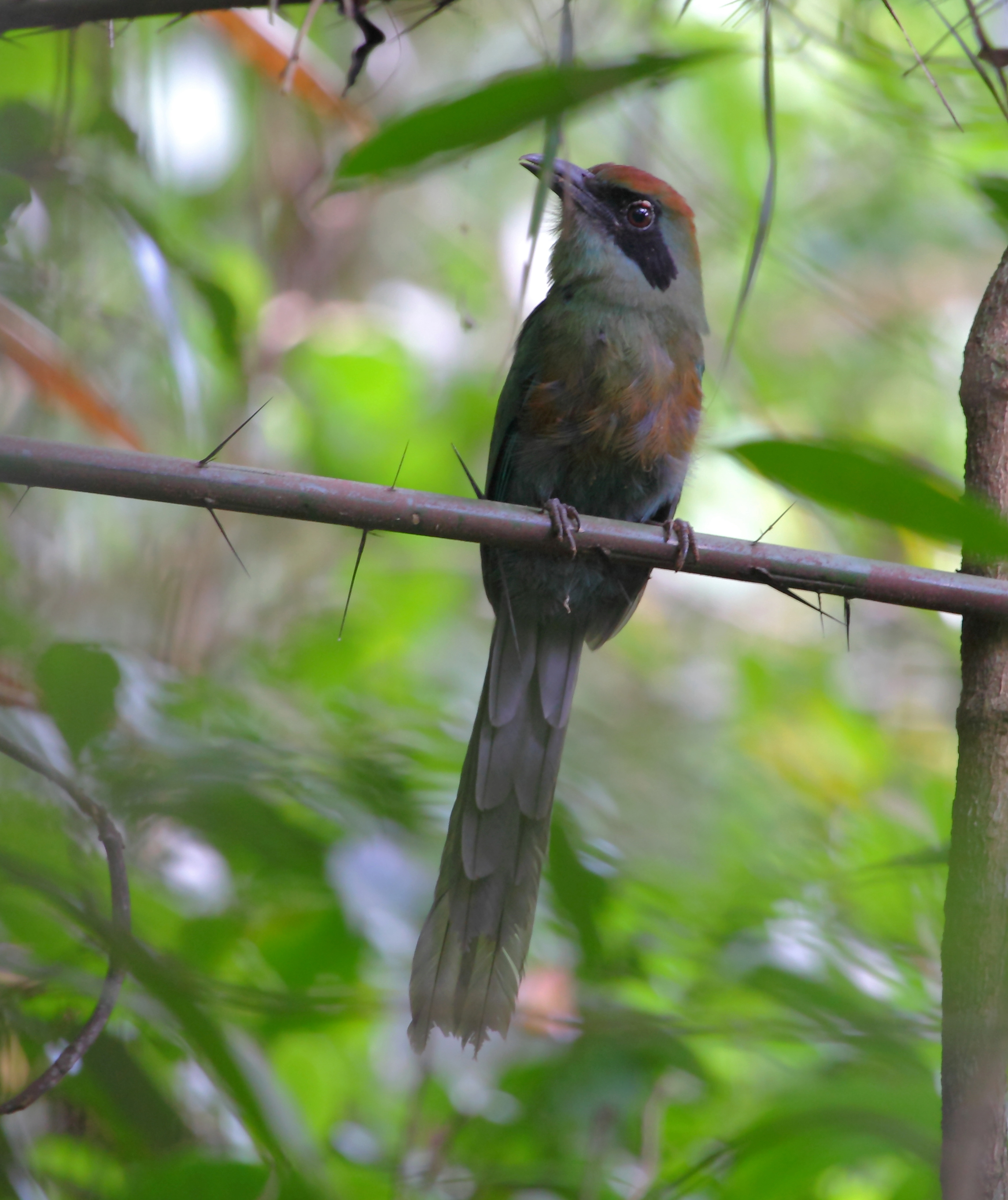 Rufous-capped Motmot at São Sebastião - SP -Brazil